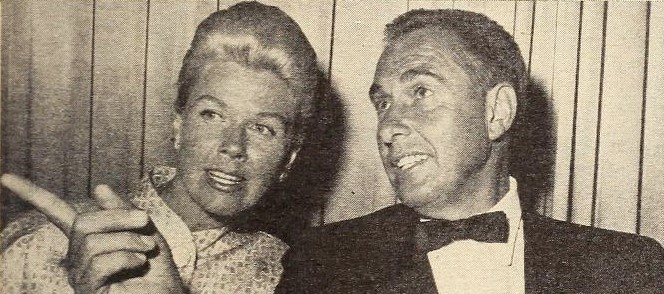 Doris Day with her husband Marty Melcher, 1960